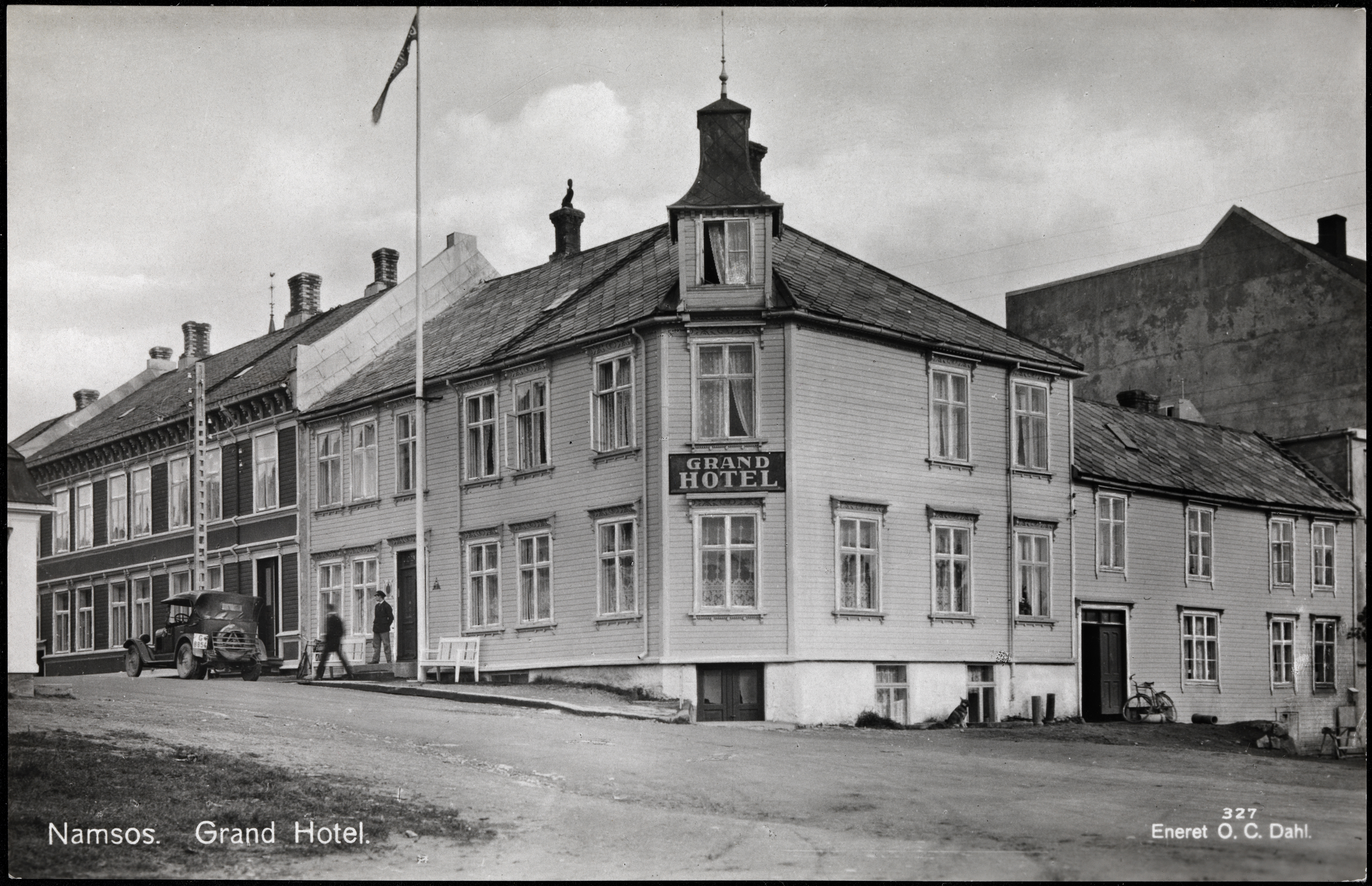 Beskrivelse / Description: Postkort / postcard. Dato / Date: ca 1934 Sted / Place: Nord-Trøndelag, Namsos Fotograf / Photographer: O. C. Dahl Utgiver / Publisher: O. C. Dahl Digital kopi av original / Digital copy of original: fotokjemisk postkort, s/h Eier / Owner Institution: Nasjonalbiblioteket / National Library of Norway Lenke / Link: Bildesignatur / Image Number: blds_03391